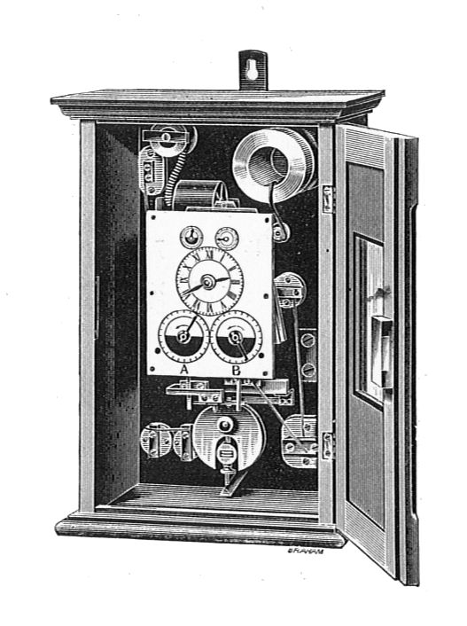 GEC Wilson time switch (Rankin Kennedy, Electrical Installations, Vol II, 1909).jpg